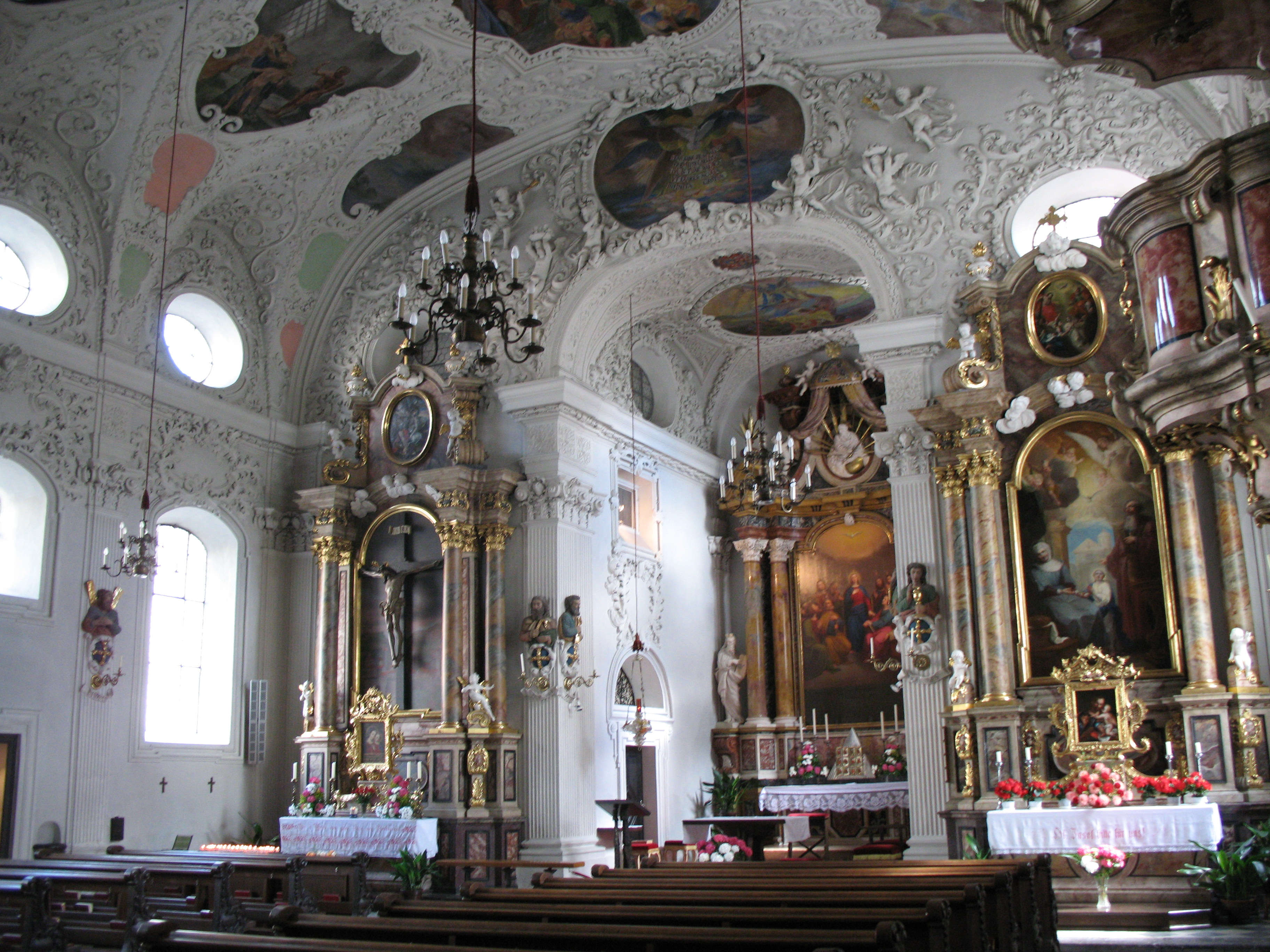 Hospital Church, Innsbruck, Austria